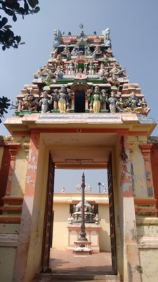 Thanjavur Neelamegaperumaltemple தஞ்சாவூர் நீலமேகப்பெருமாள்கோயில்